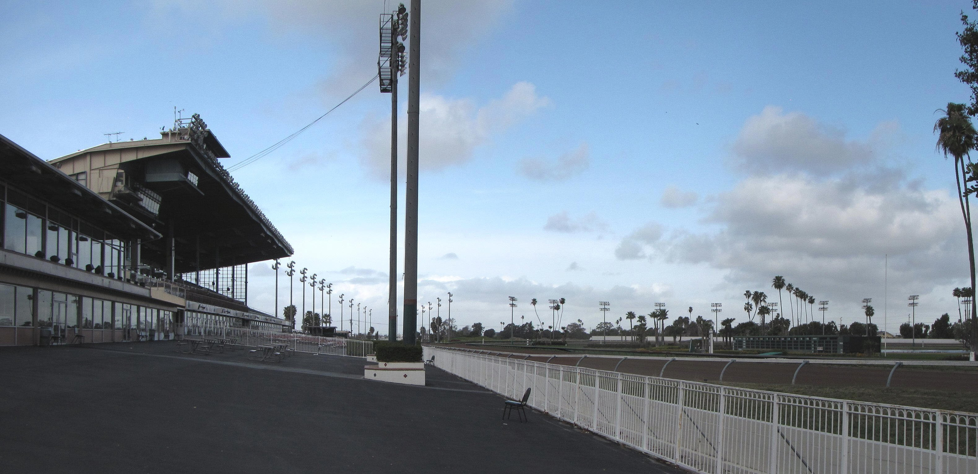 Los Alamitos Race Course